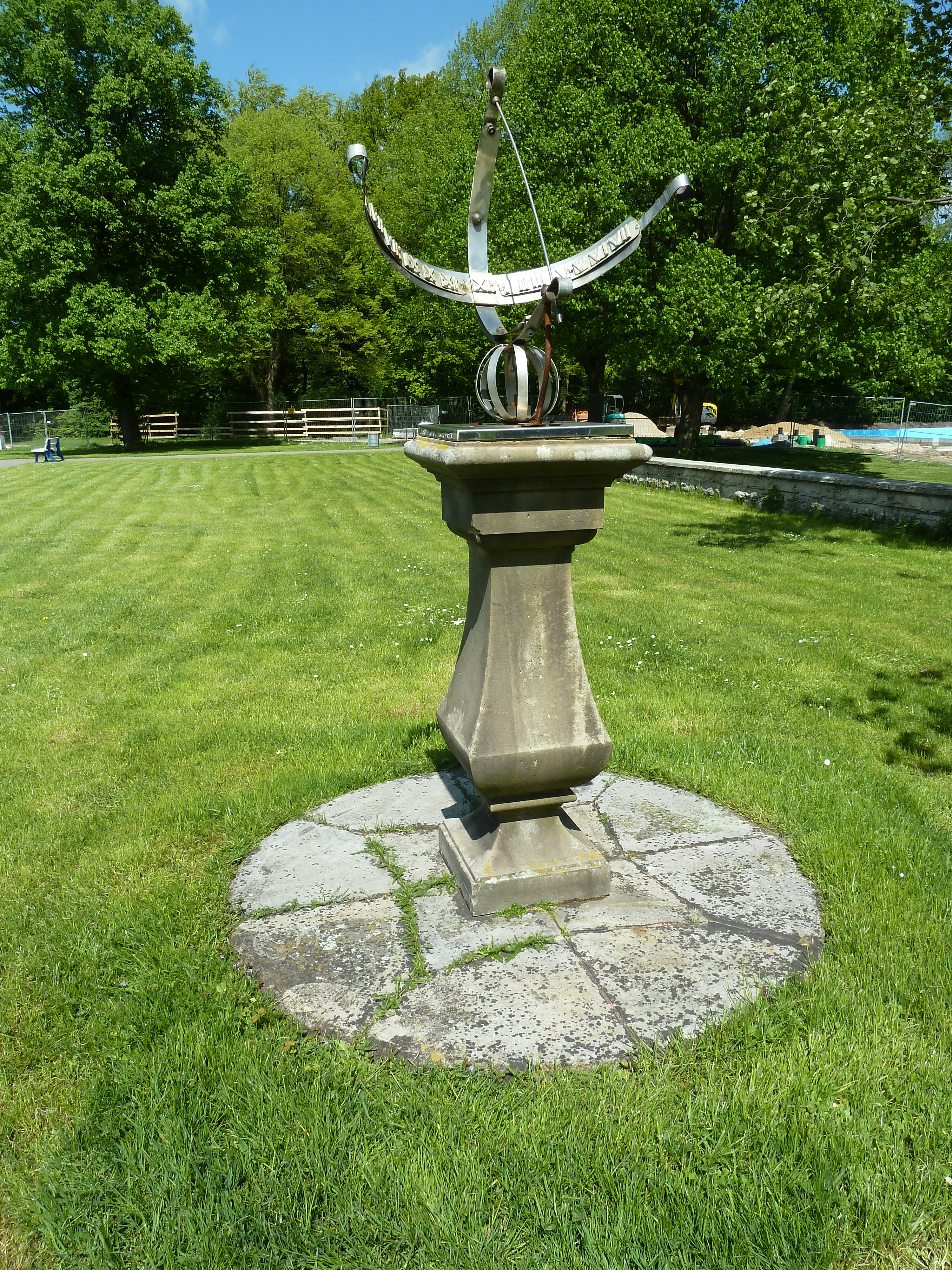 Sundial, Hannover-Kleefeld, Annabad